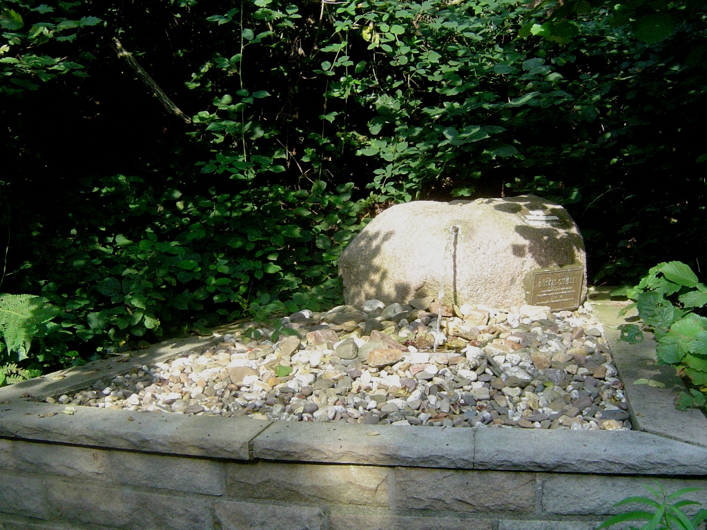 Spring of German river Düssel near Velbert-Neviges